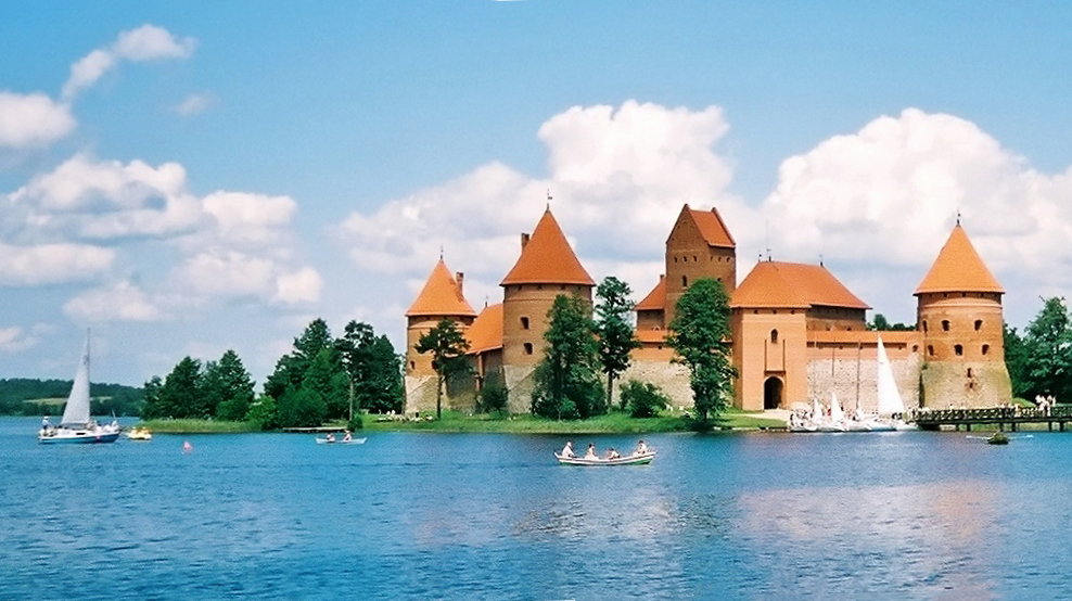 Island castle of Trakai, Lituania